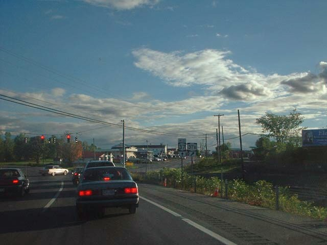 Westbound on New York State Route 37 at the eastern terminus of New York State Route 37B in Massena.